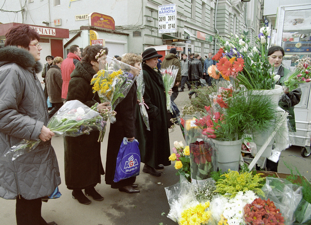 “On the eve of the International women's day”. Women buy flowers on the eve of the International women's day.